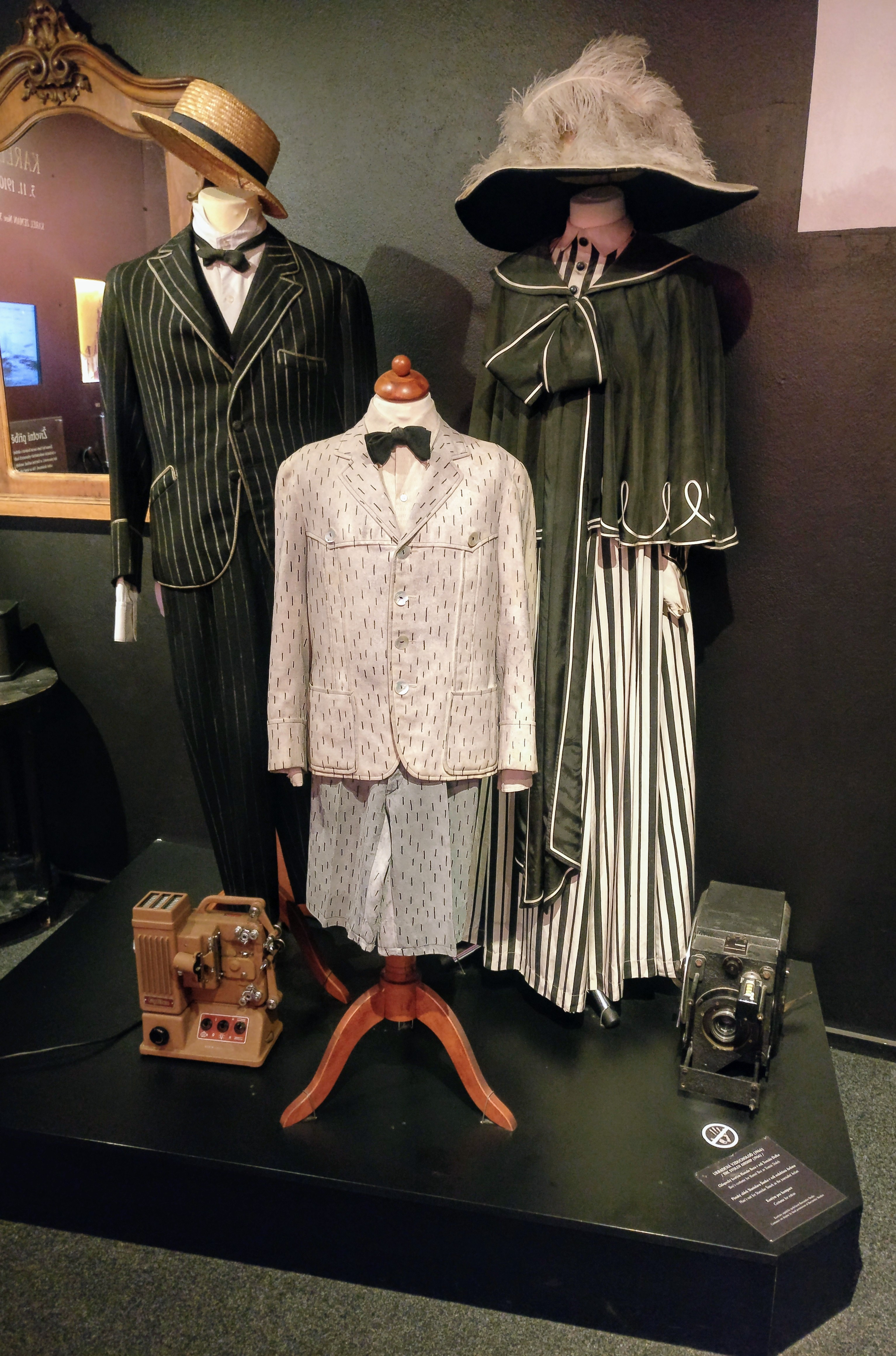 Costumes for the 1966 Karel Zeman film The Stolen Airship Men's suit for Stanislav Šimek Boy's suit for Hanus Bor Costume for an extra